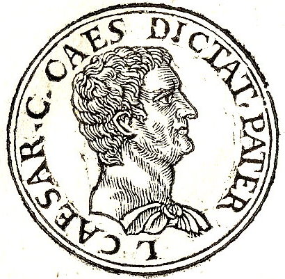 Gaius Julius Caesar (proconsul of Asia) was a Roman senator, supporter and brother-in-law of Gaius Marius, and father of Julius Caesar, the later dictator of Rome.